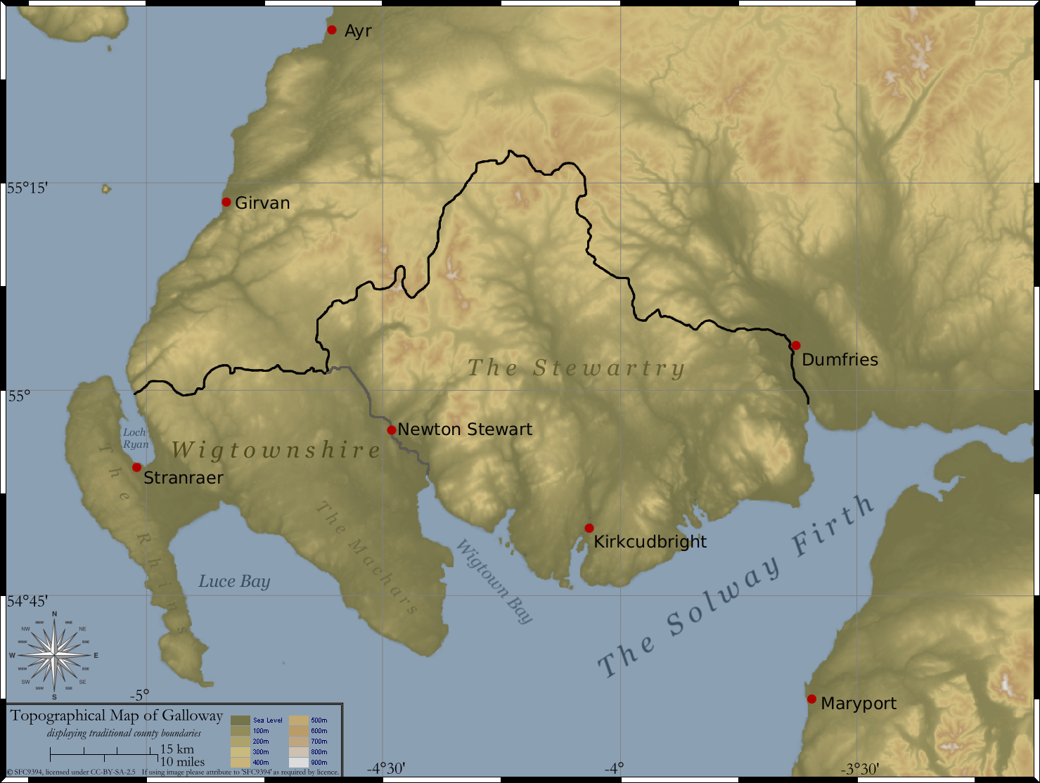 Created by myself, Topographical Map of the area of SW Scotland traditionally defined as Galloway (the counties of Wigtownshire and The Stewartry). Topographical data derived from NASA SRTM, public domain. County boundaries derived from 1821 map of southern Scotland by John Ainslie of Macreadie Skelly & Co, presumed PD by Berne Convention. Compass rose by Stefan-Xp